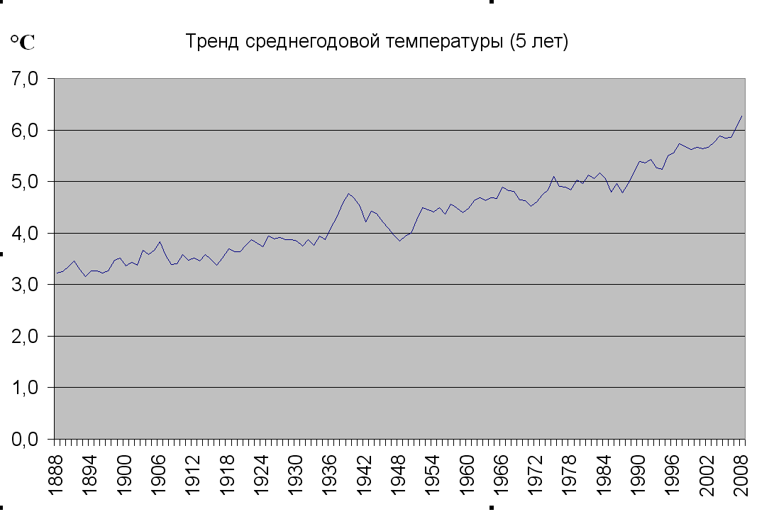 Trend of average annual temperature in Moscow